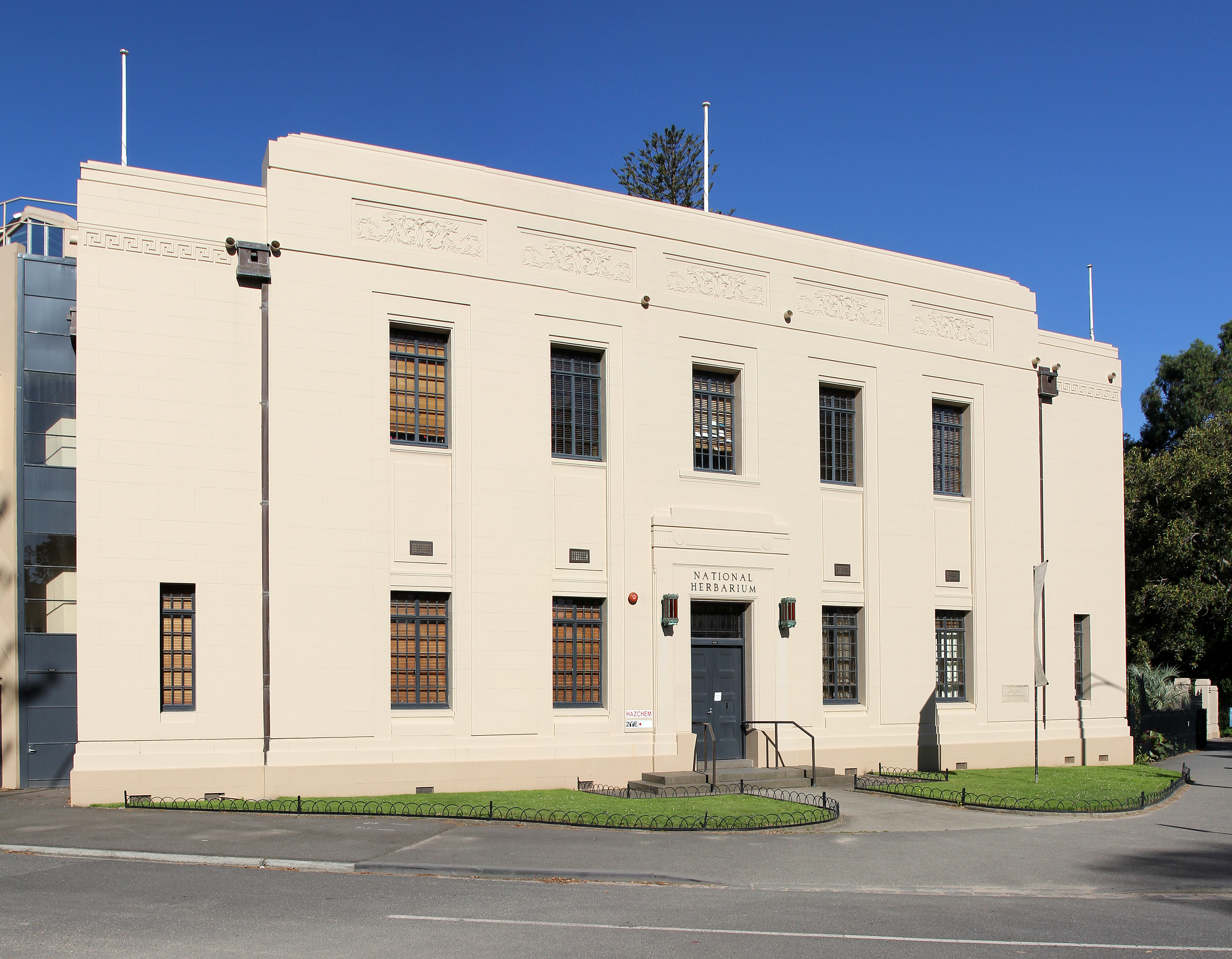 West facade of The National Herbarium Victoria - Founded in 1853. Royal Botanic Gardens, Melbourne.